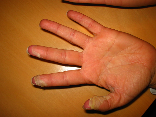 Scarlet fever: desquamation of skin from finger-tips after 8 days